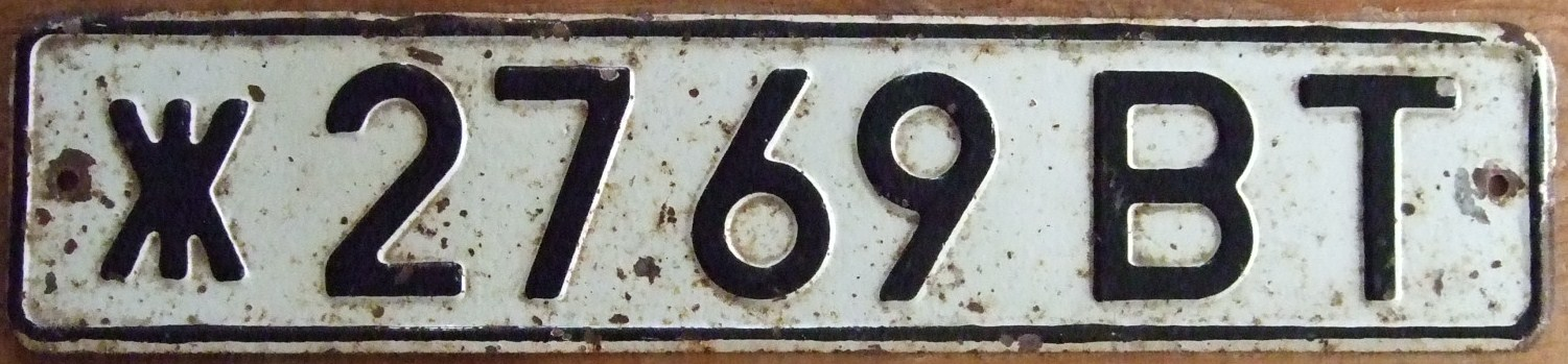 This plate was issued in the style of the 1980 Soviet series license plates. This plate is from Vibetsk in the Belorussian SSR. The Belorussian SSR is now the nation of Belarus.